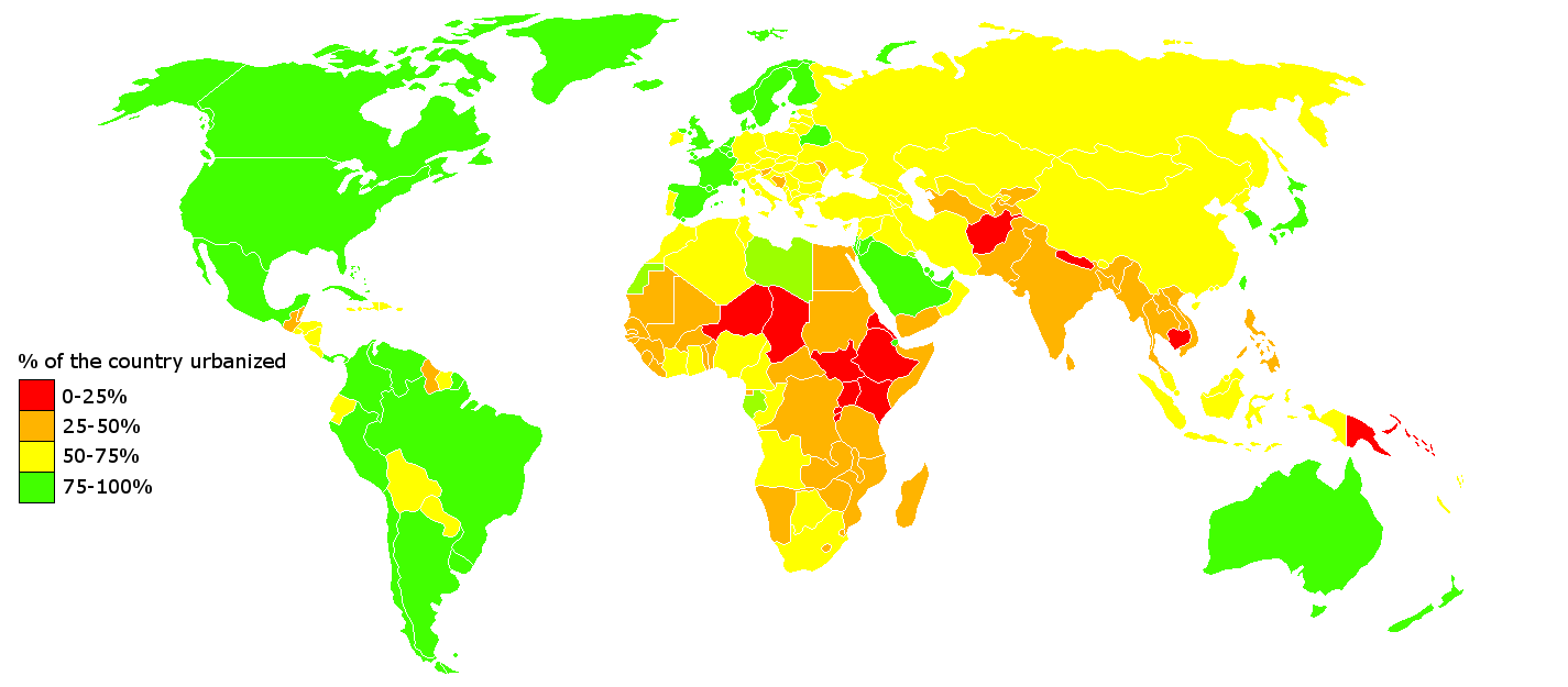 updated